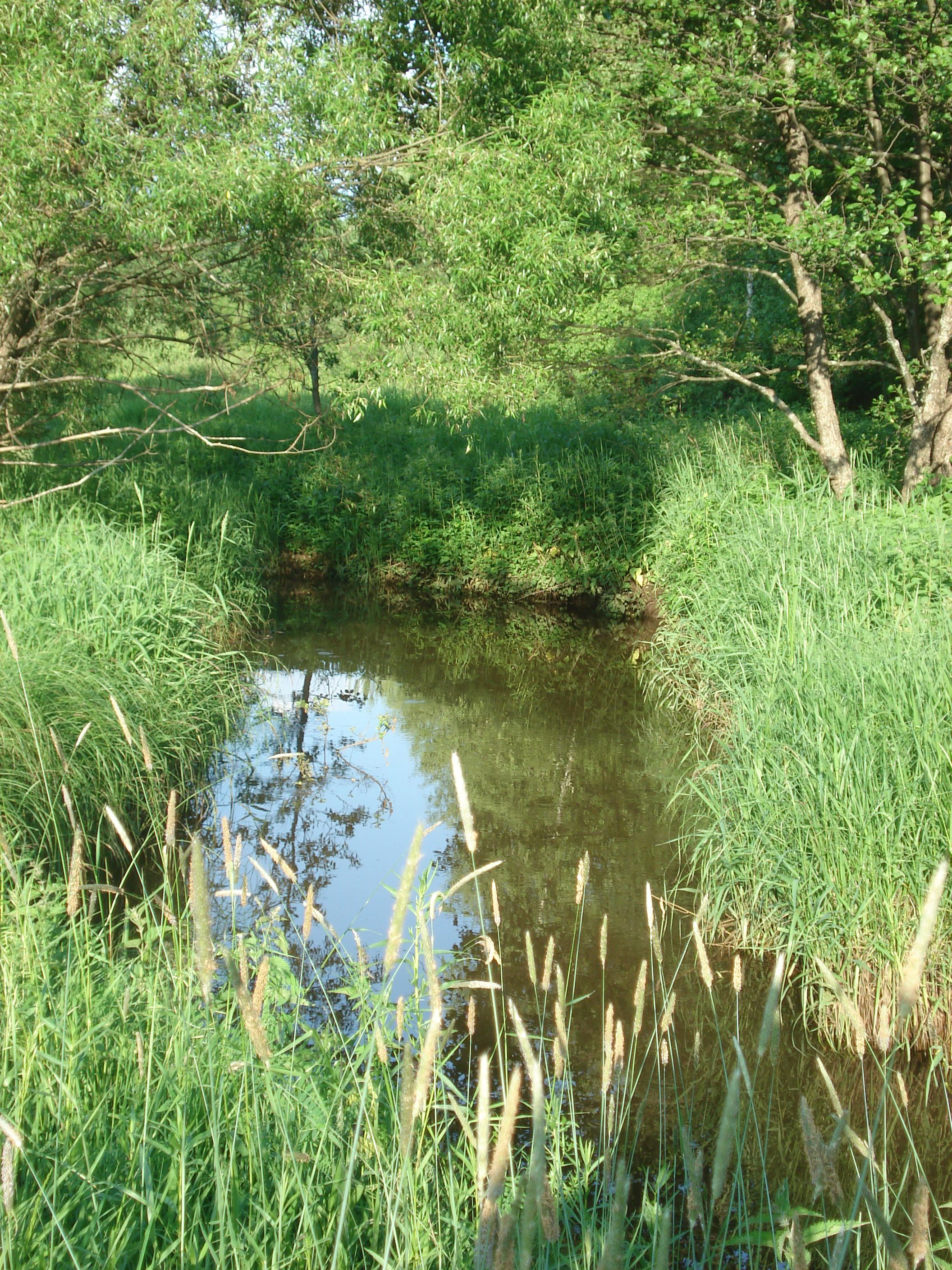 The Shuvoyka River about the village of Gridino, Moscow oblast